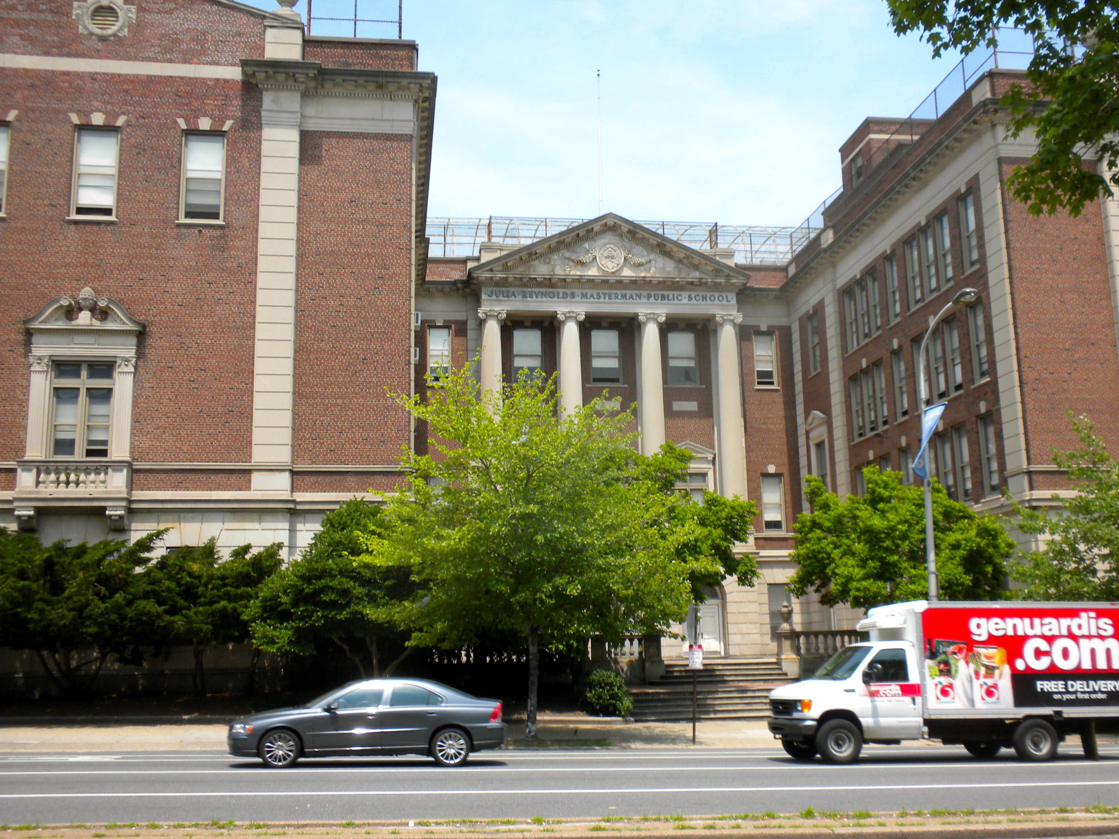 Julia Masterman School, the old Philadelphia High School for Girls campus, on the NRHP since December 4, 1986. At 17th and Spring Garden Sts. The school named Philadelphia High School for Girls has MOVED buildings and is now in Olney. But this is the building that's on the NRHP. In Spring Garden neighborhood of Philadelphia